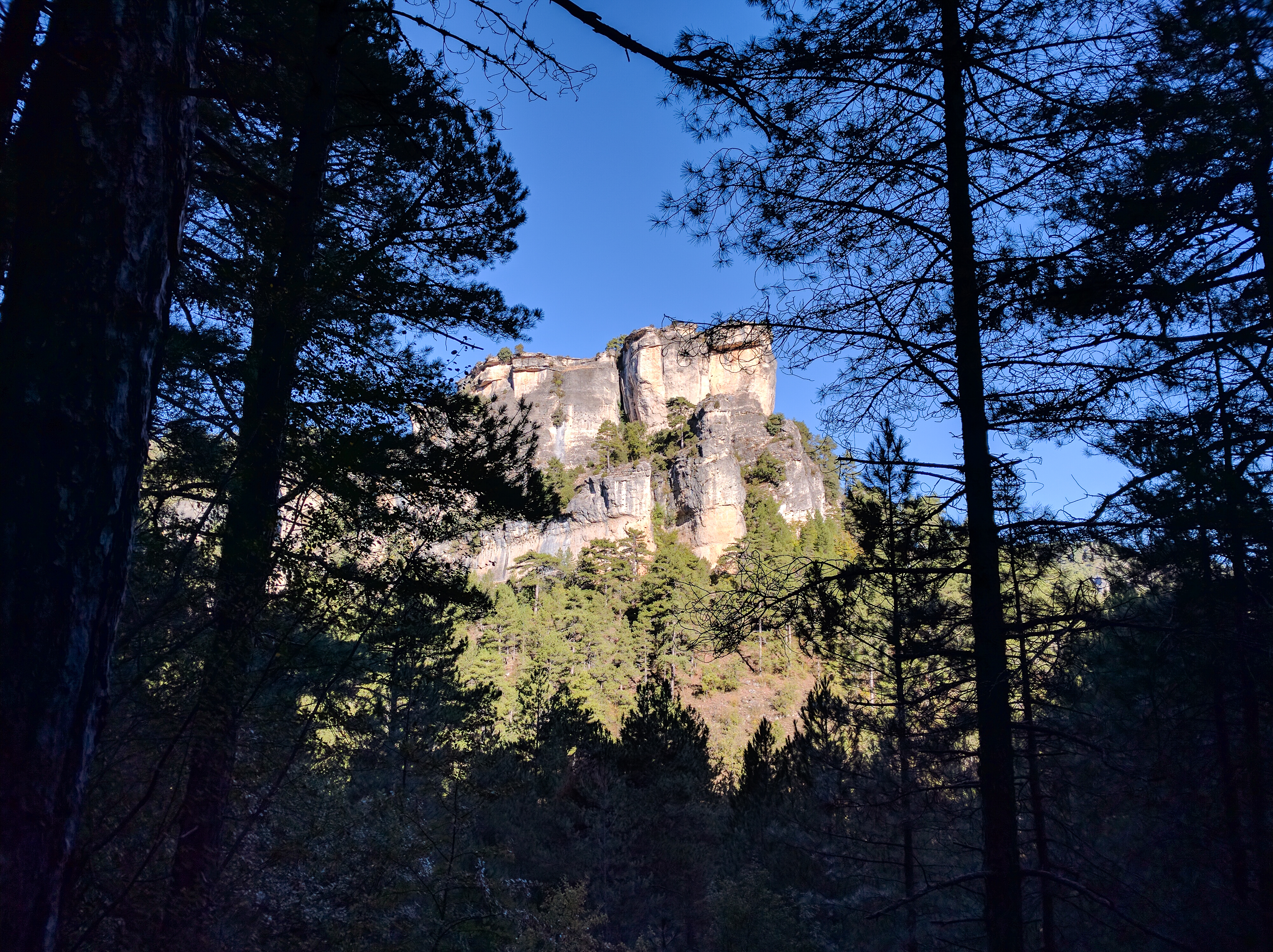 Botanical trail in Hoz de Beteta. Beteta, Cuenca, Spain.